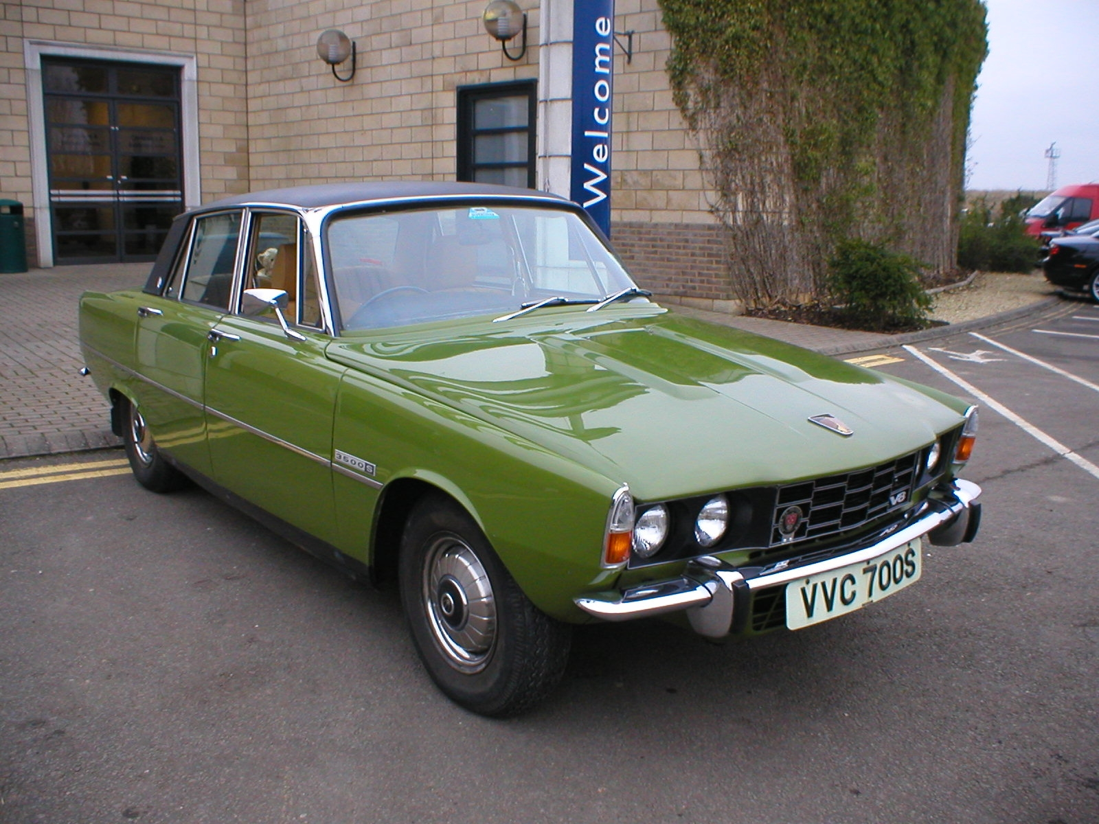 The Last of Line Rover P6 VVC 700S, the last Rover P6 off the production line, with a build date of 19th March 1977. The Rover Archives show this as the 'Last of Line'. This car was first sent to the Leyland Historic Vehicle collection, then at Donington Park until 1980, when it was moved to Syon Park along with the rest of the collection. It remained an exhibit at Syon until 1990, when the collection moved to Studley Castle (then owned by Rover) and storage until 1993. In 1993, the collection then moved to its new home, the British Industry Heritage Trust site at Gaydon, now known as the Heritage Motor Centre. VVC 700S was on display until 2003 when it sold at the Bonhams sale of Rover owned items. The car is seen here in 2006 when it revisited Gaydon for the first time since the sale and is still in original condition having never been restored. The car came out of the collection having only ever covered 12,300 miles. roverp6man who took the photo also owns VVC 700S now. External links